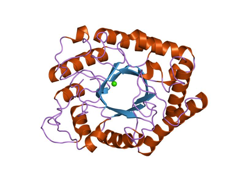 Cartoon representation of the molecular structure of protein registered with 1fob code.